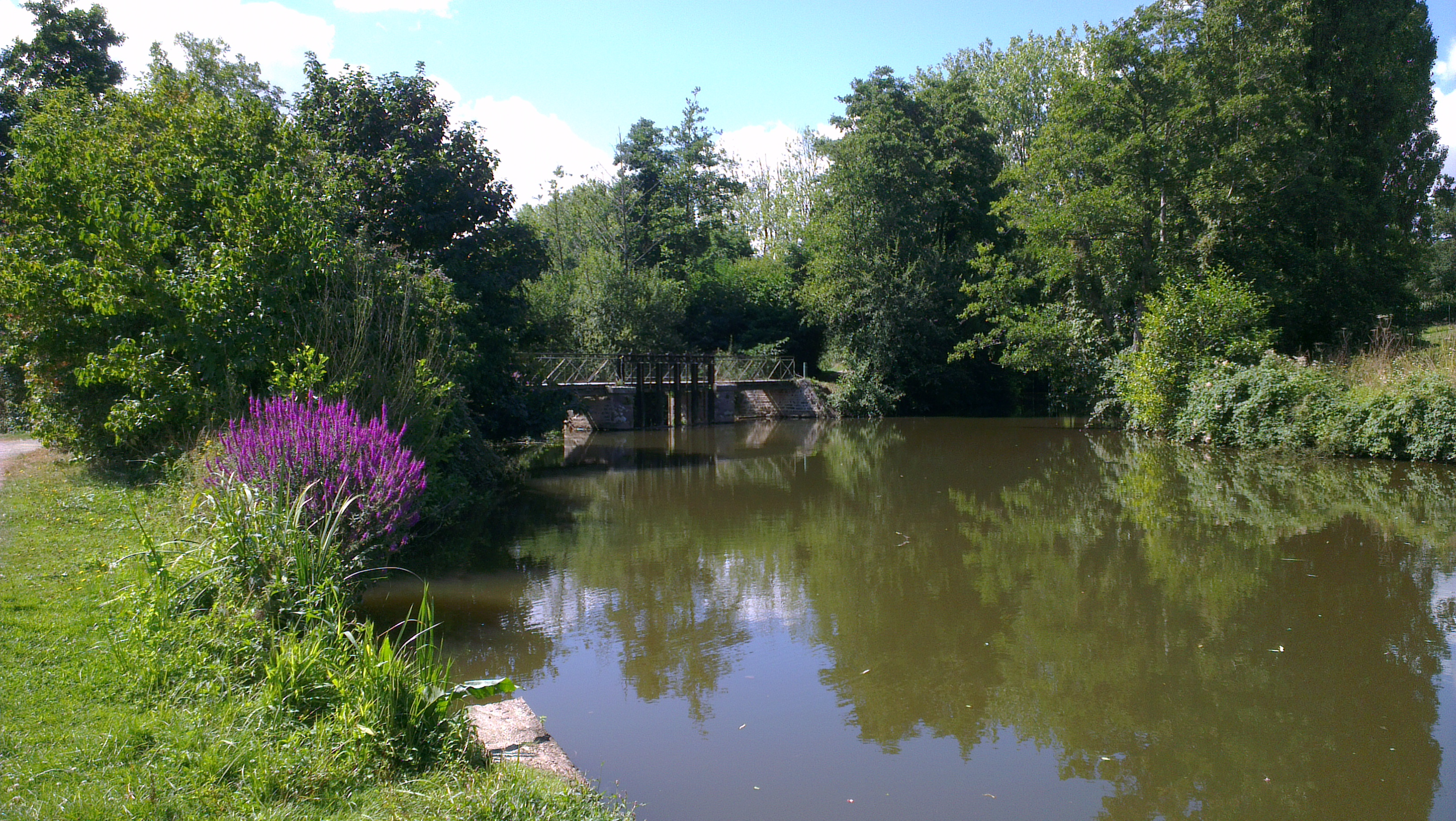 Betton, little town in Britany, detail of river Illet.